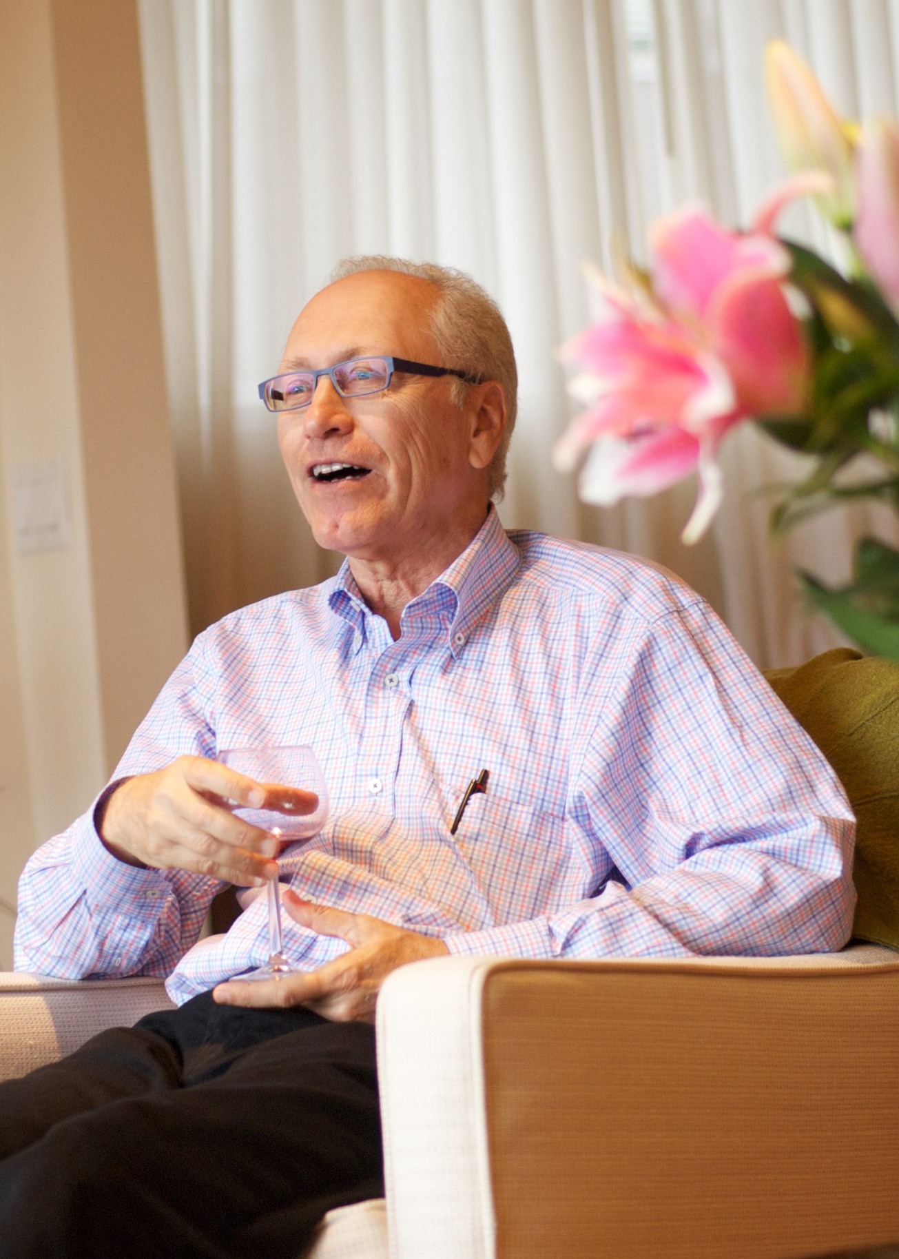 Andrew Feenberg in Vancouver, Canada September 2010